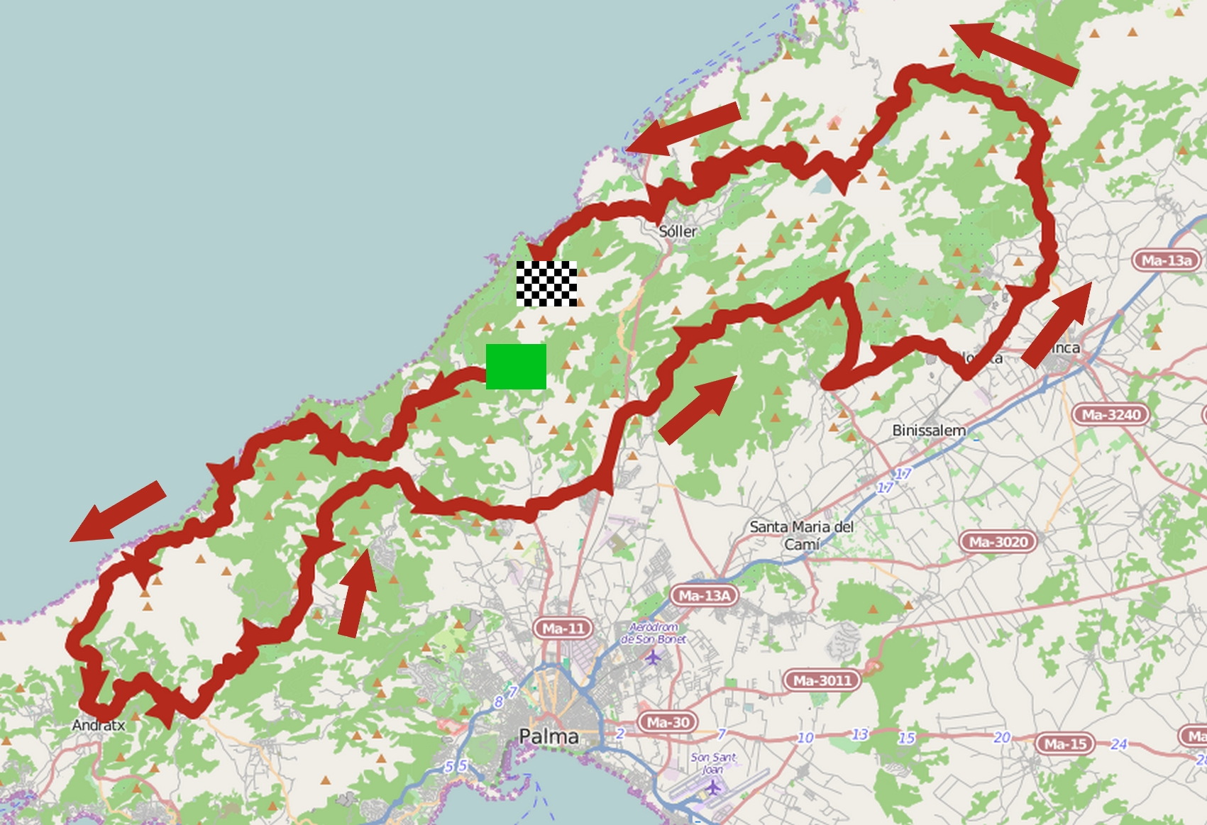 Parcours du Trofeo Serra de Tramuntana du Challenge de Majorque 2015. This map may be incomplete, and may contain errors. Don't rely solely on it for navigation.